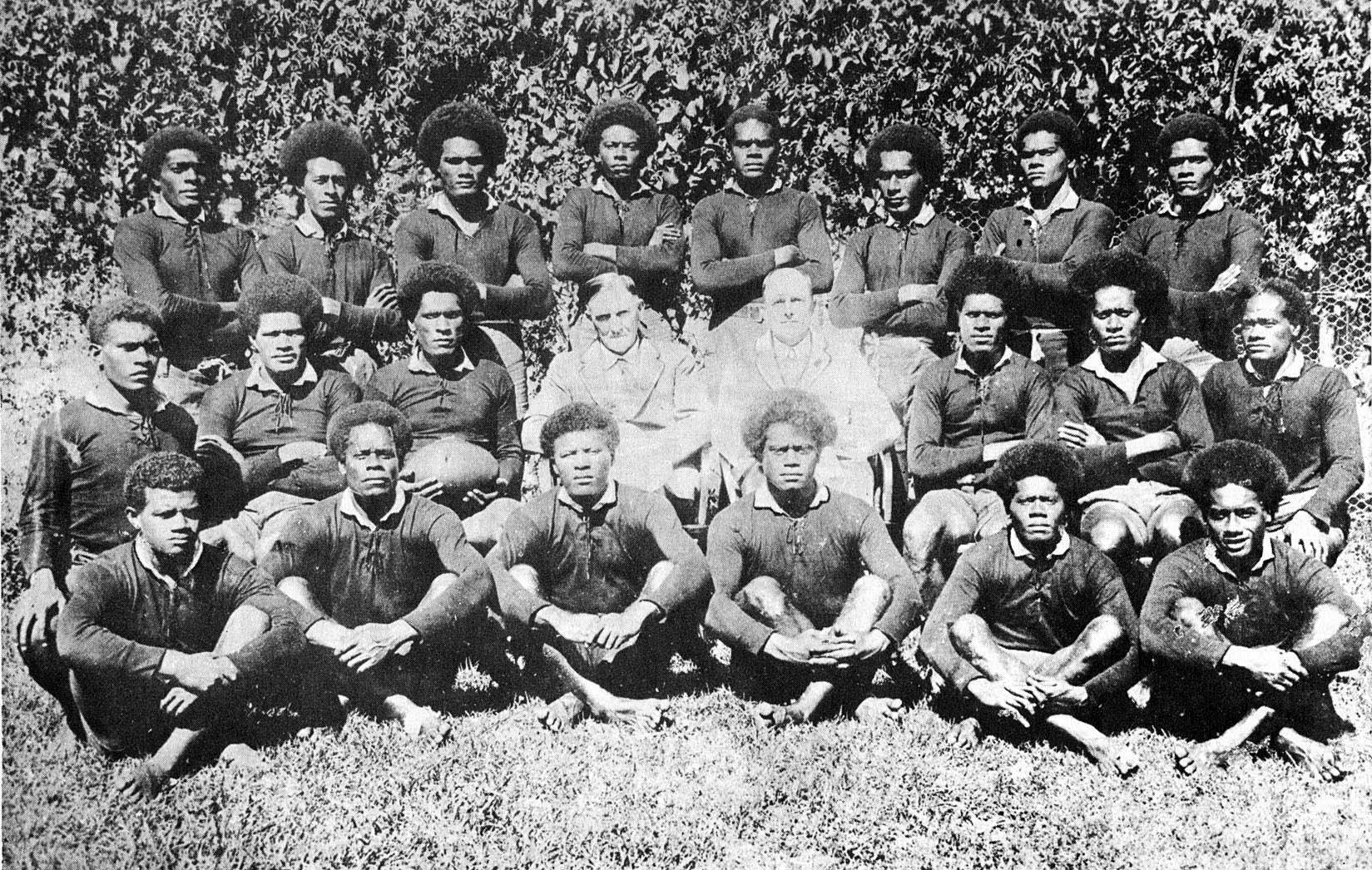 1924 - Fiji tour to Samoa and Tonga the "All Blacks of the South Seas"